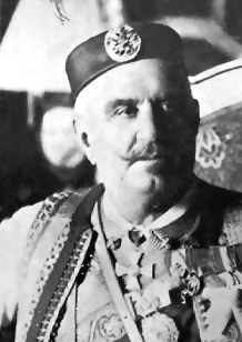 Nikola I. (1841-1921), King of Montenegro